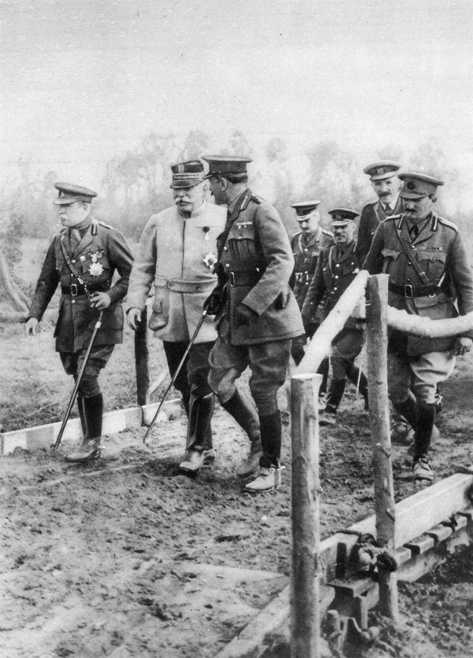 Generals French, Joffre and Haig at the Front (right to left order), 1915.